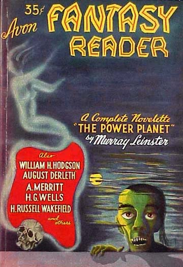 Cover of the fantasy fiction magazine Avon Fantasy Reader no. 1 (1947) featuring "The Power Planet" by Murray Leinster.